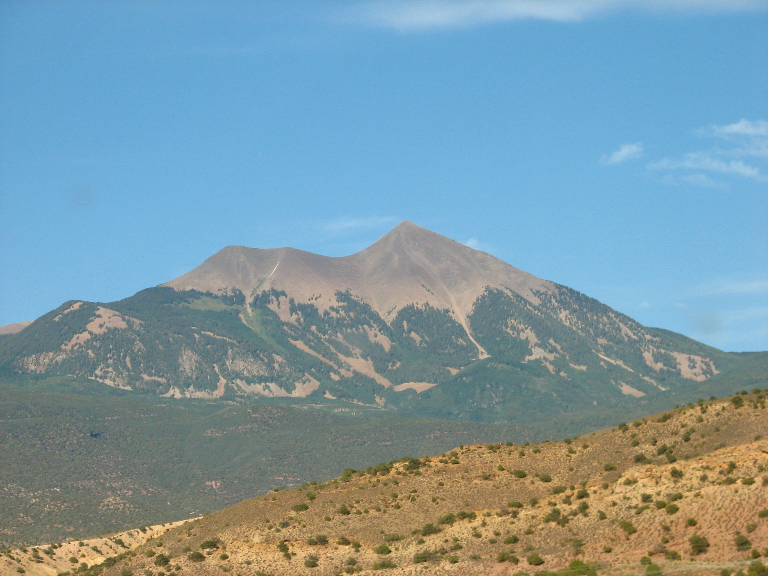 The La Sal Range (or La Sal Mountains) is located in Grand and San Juan counties, near the eastern border of the state of Utah. Author: Juozas Rimas